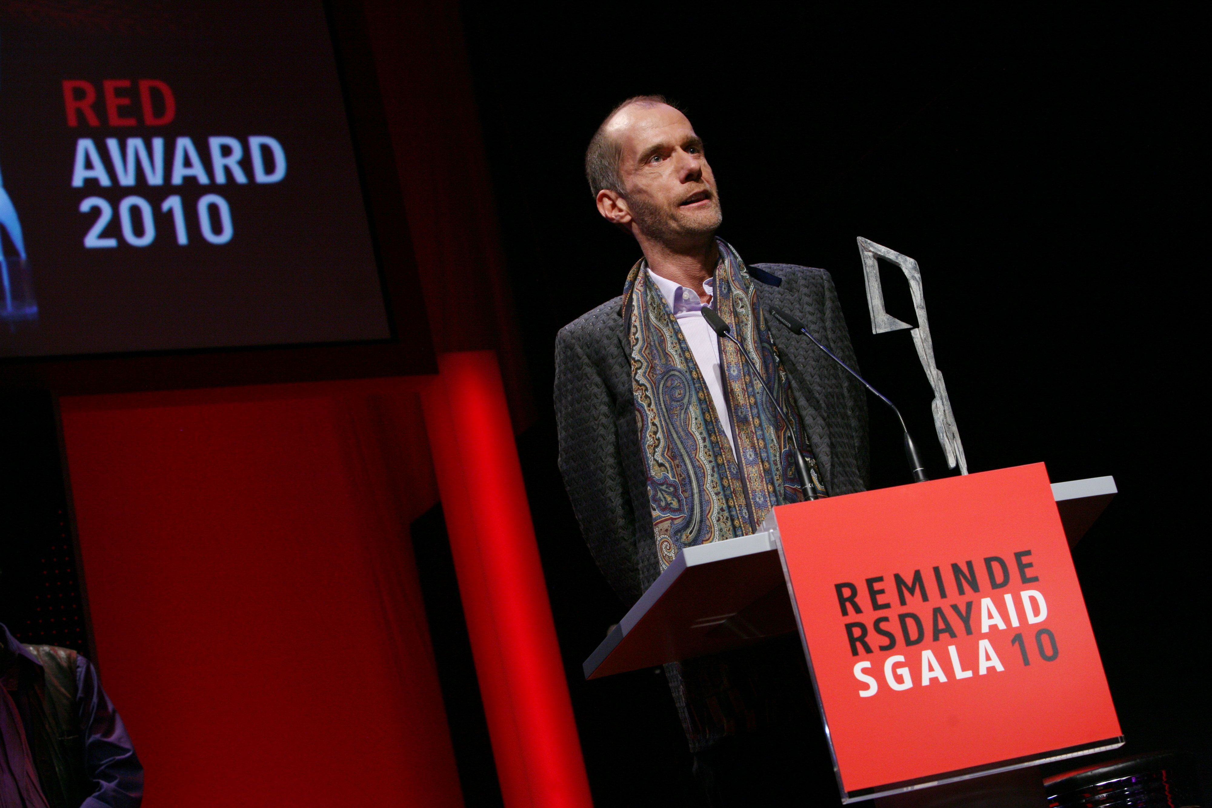 ReD Award 2012